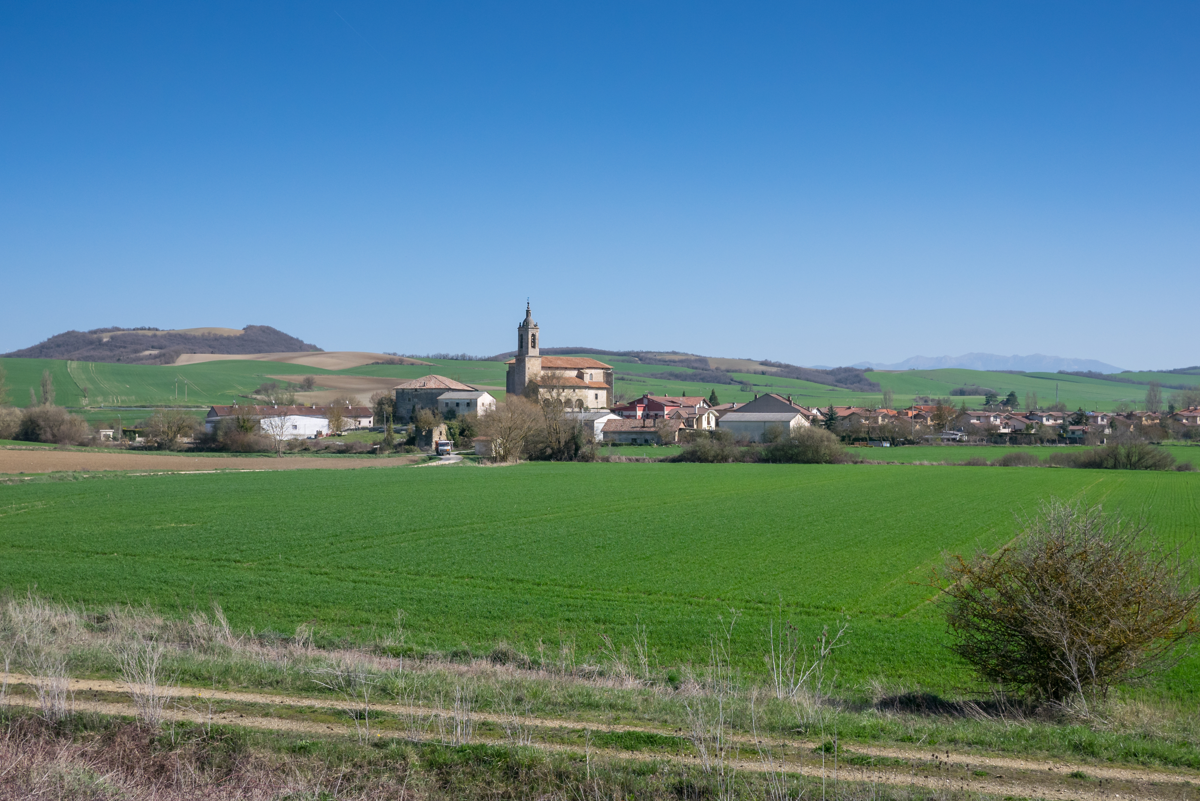 General view of Elburgo. Álava, Basque Country, Spain